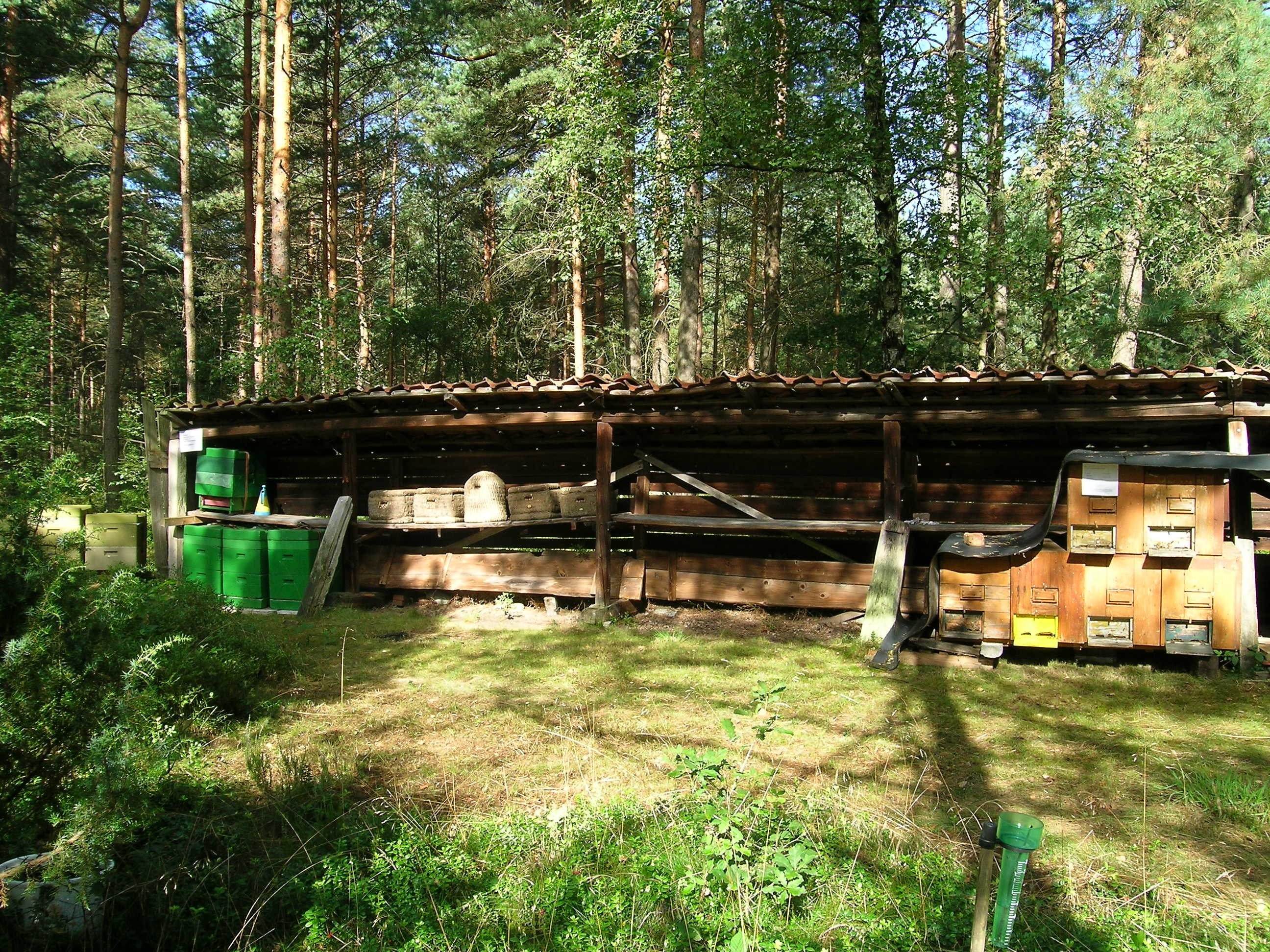 Fixed beehive in the Südheide, Lower Saxony, Germany.